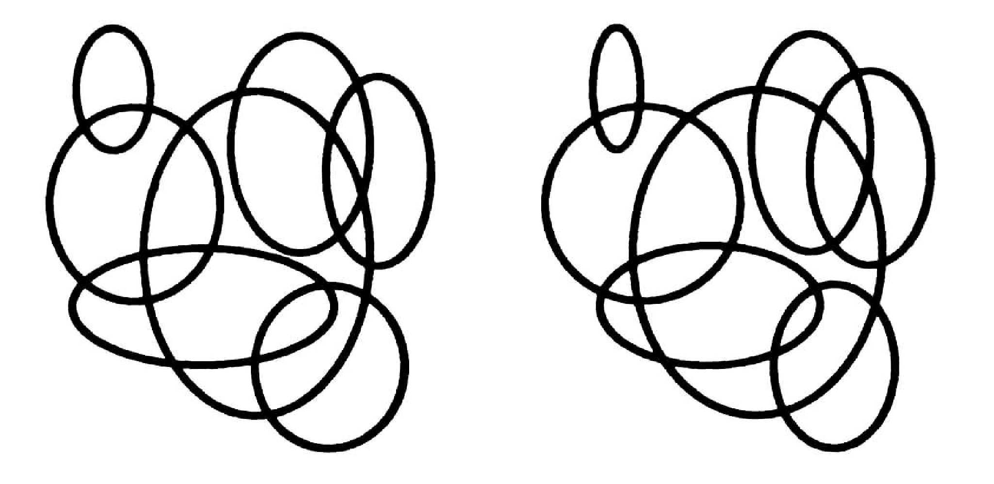 seven rings as a demonstration of freeviewing in stereoscopy. Only freeviewers can find which of these rings is not attached to any other one and which one is not a circle.